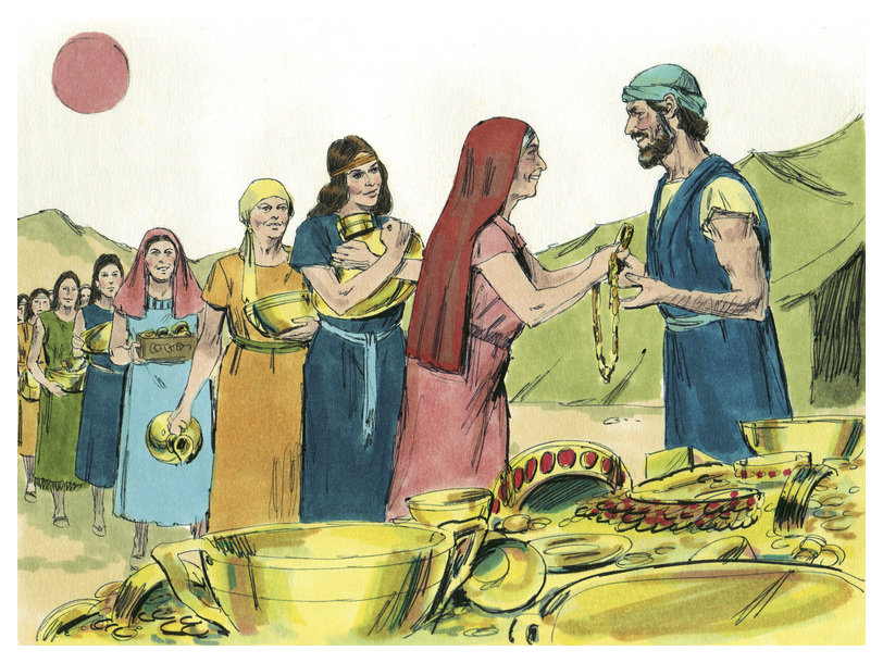 Biblical illustration of Book of Exodus Chapter 33